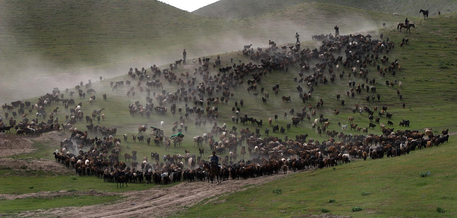 Gissarian sheep in Tajikistan